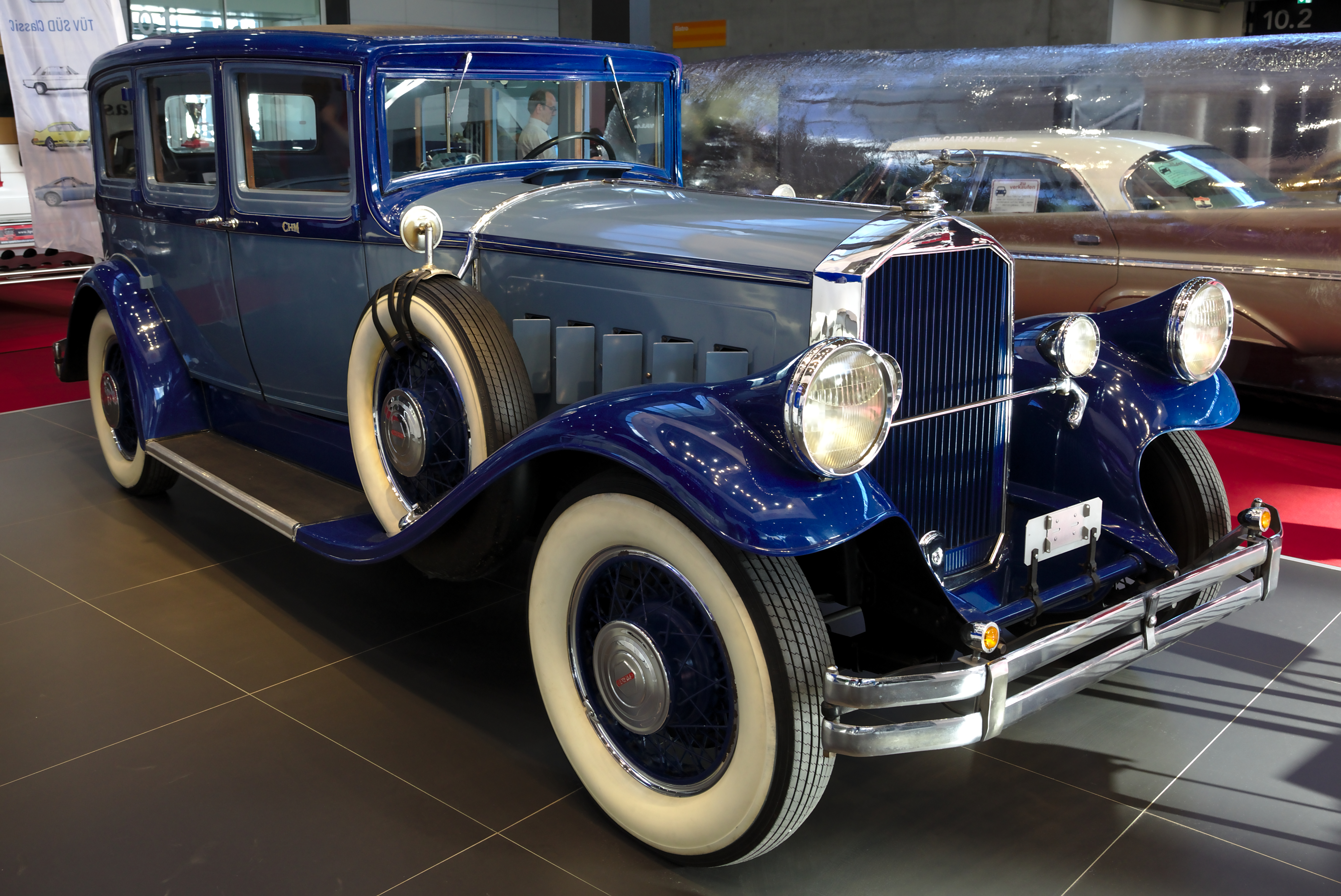 Pierce-Arrow Model B at Retro Classics 2019